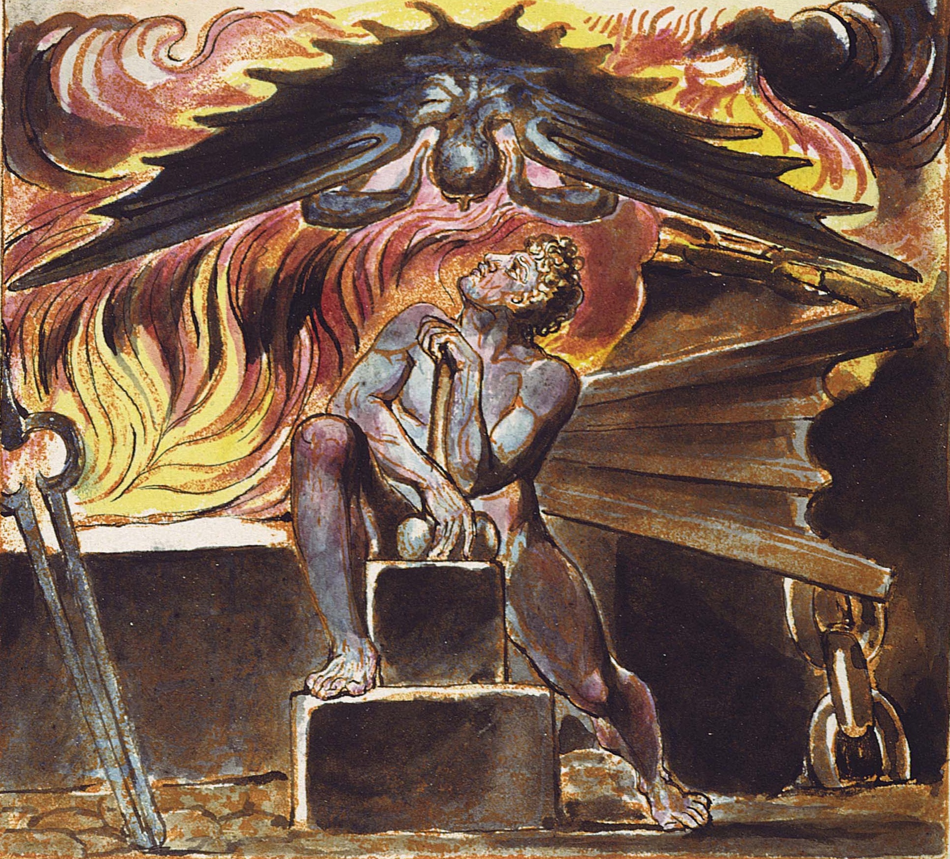 Spectre over Los in Plate 6 of Jerusalem: The Emanation of the Giant Albion by William Blake Copy E